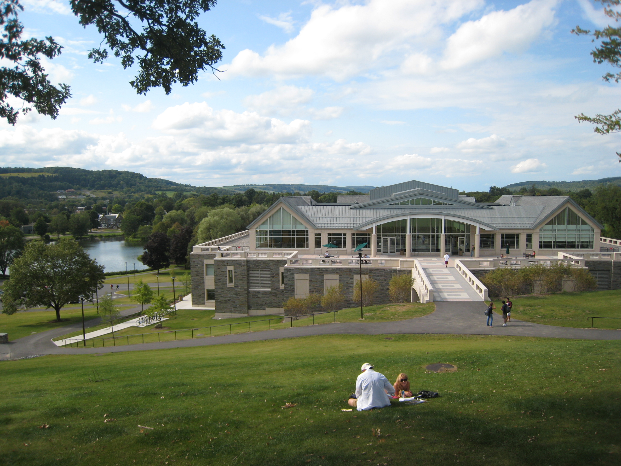 View of Case Library from the hill